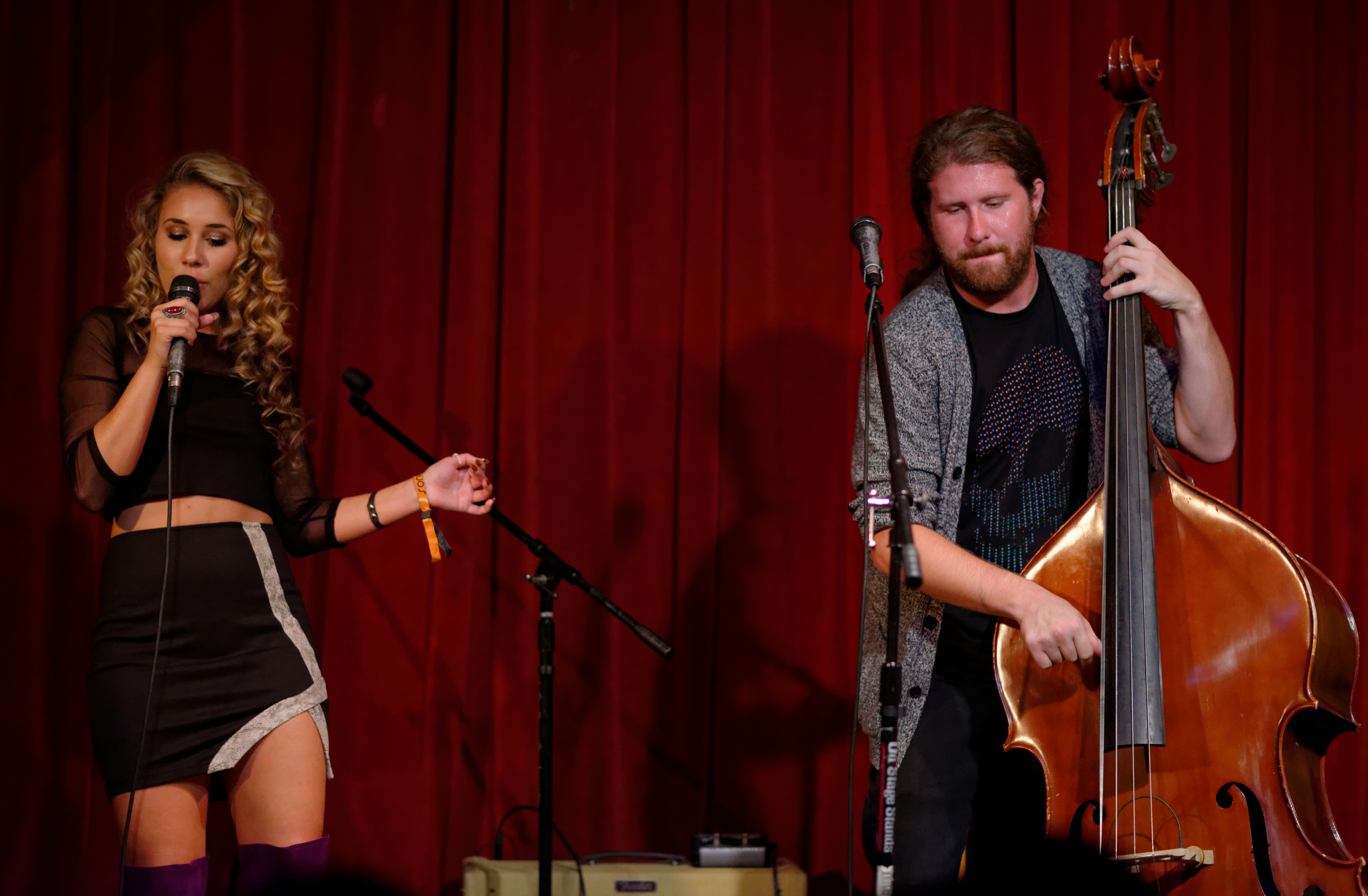 Haley Reinhart, Casey Abrams, Mark Ballas, and Dylan Chambers at Room 5